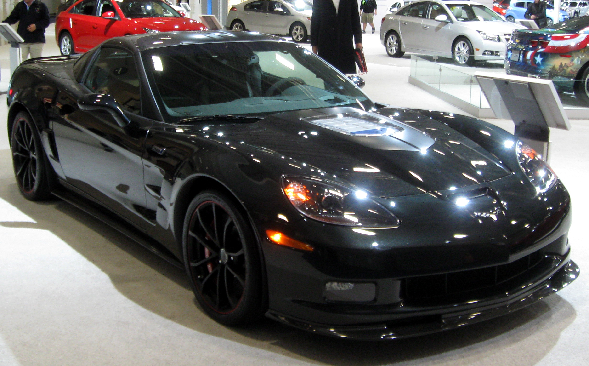 2012 Chevrolet Corvette ZR1 photographed in Washington, D.C., USA.